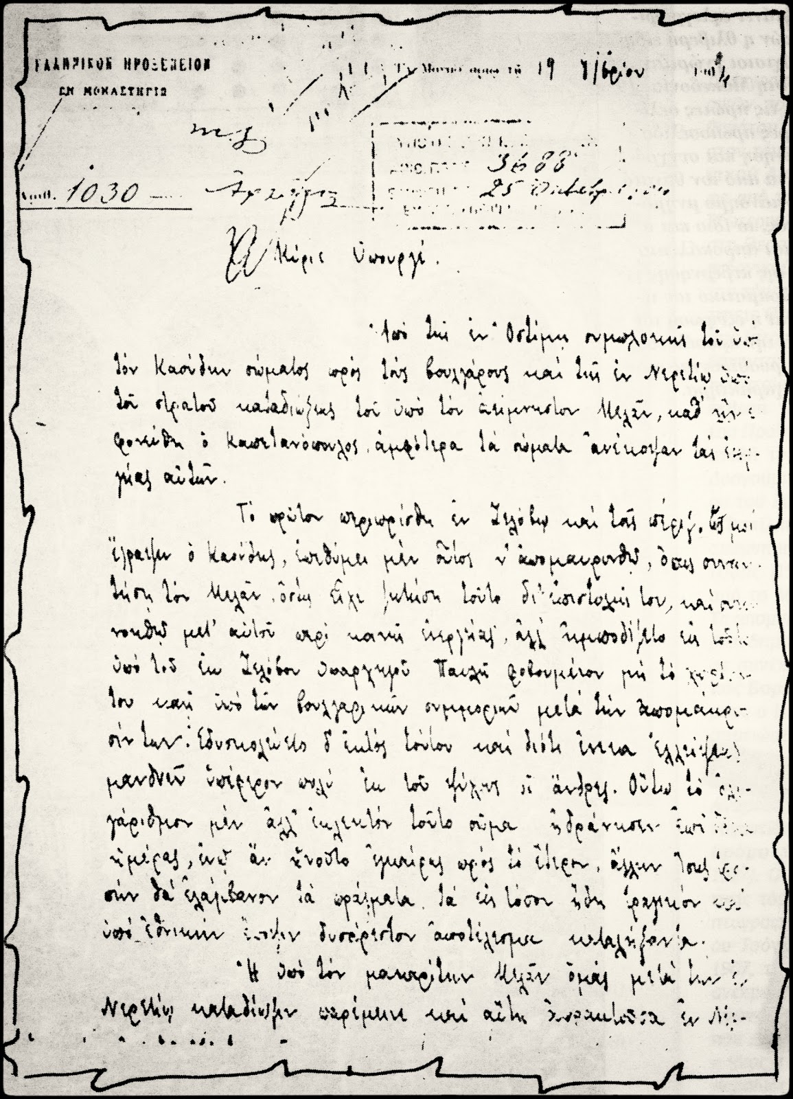 A letter from Philippos Kondogouris about the death of Pavlos Melas